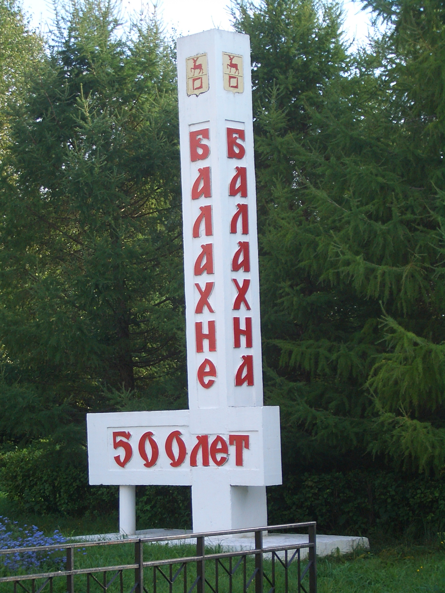 500 Years of Balakhna, a monument - or just sign - in a city park. It displays the city's coat of arms (which dates to the 18th century) on top.